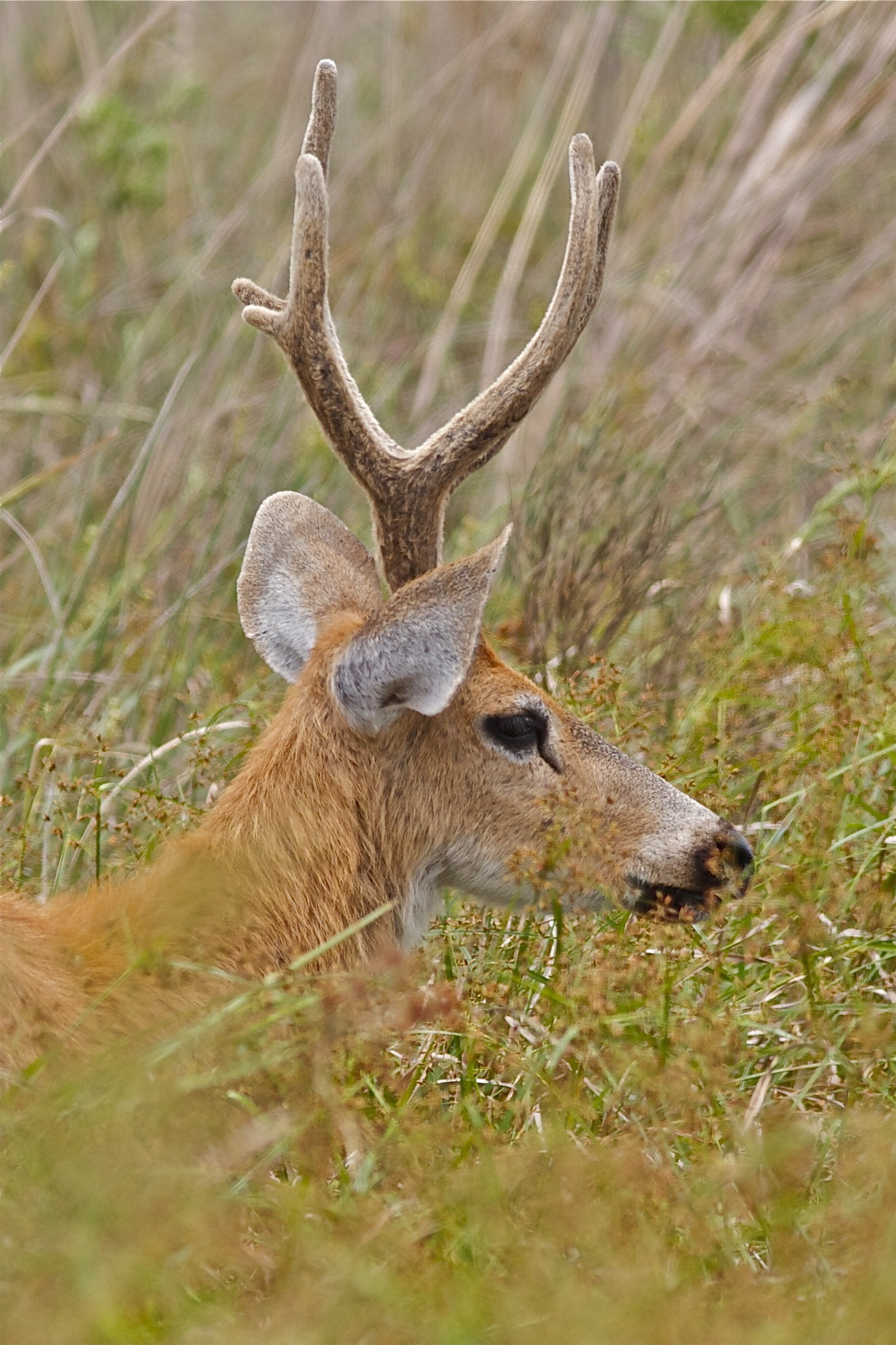 A male marsh deer (Blastocerus dichotomus).